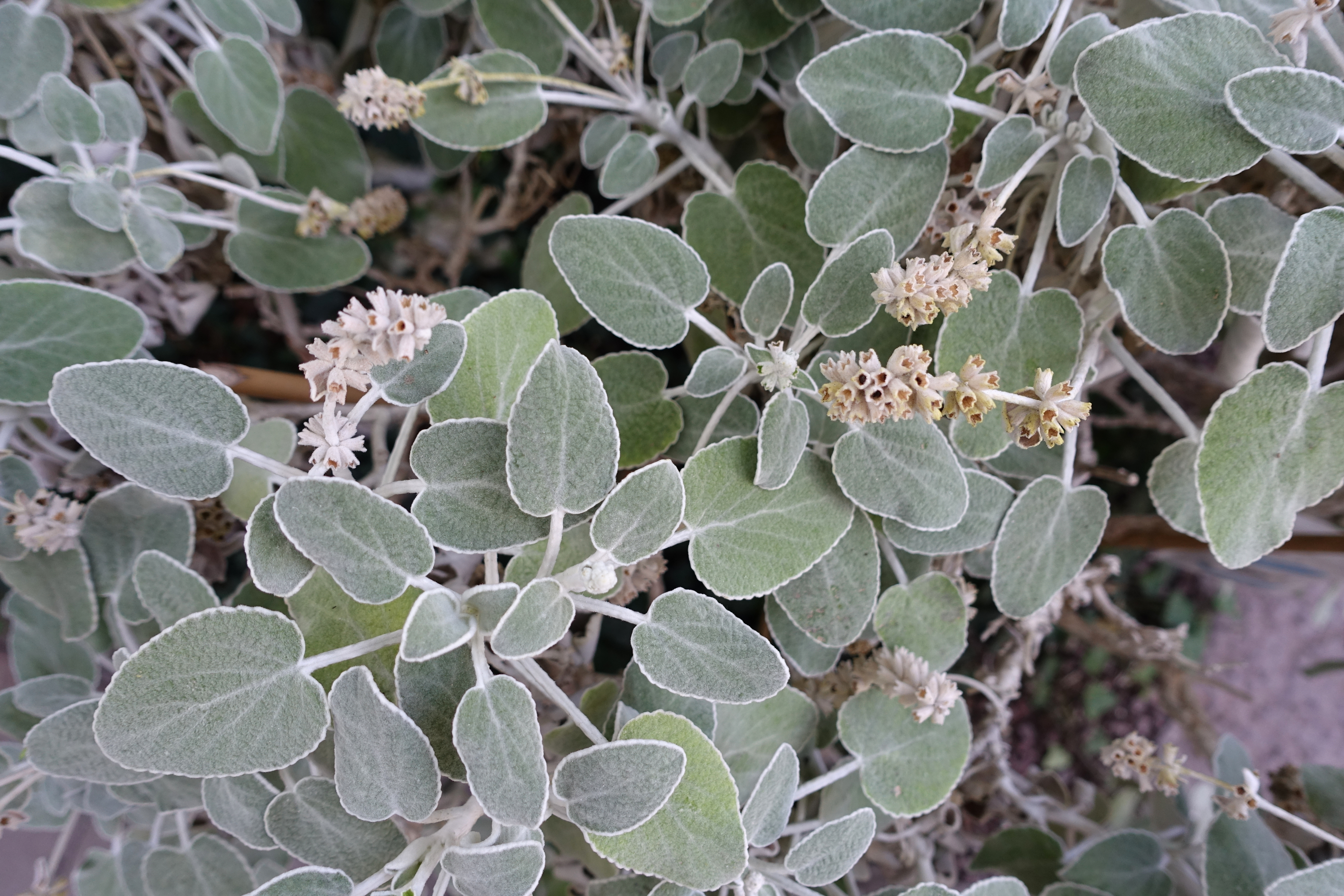 Botanical specimen in the Bergianska trädgården - Stockholm, Sweden.